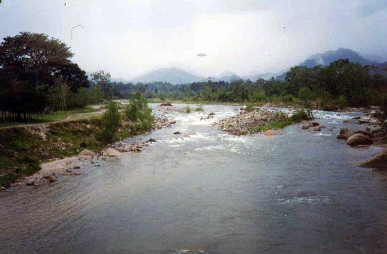 San Juan River, flowing through the village of Arizona, in Atlántida Department, Honduras